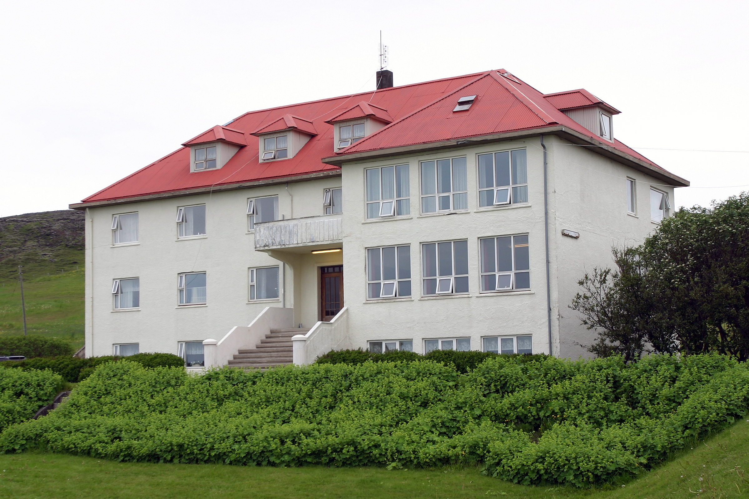 Former school building in Iceland.